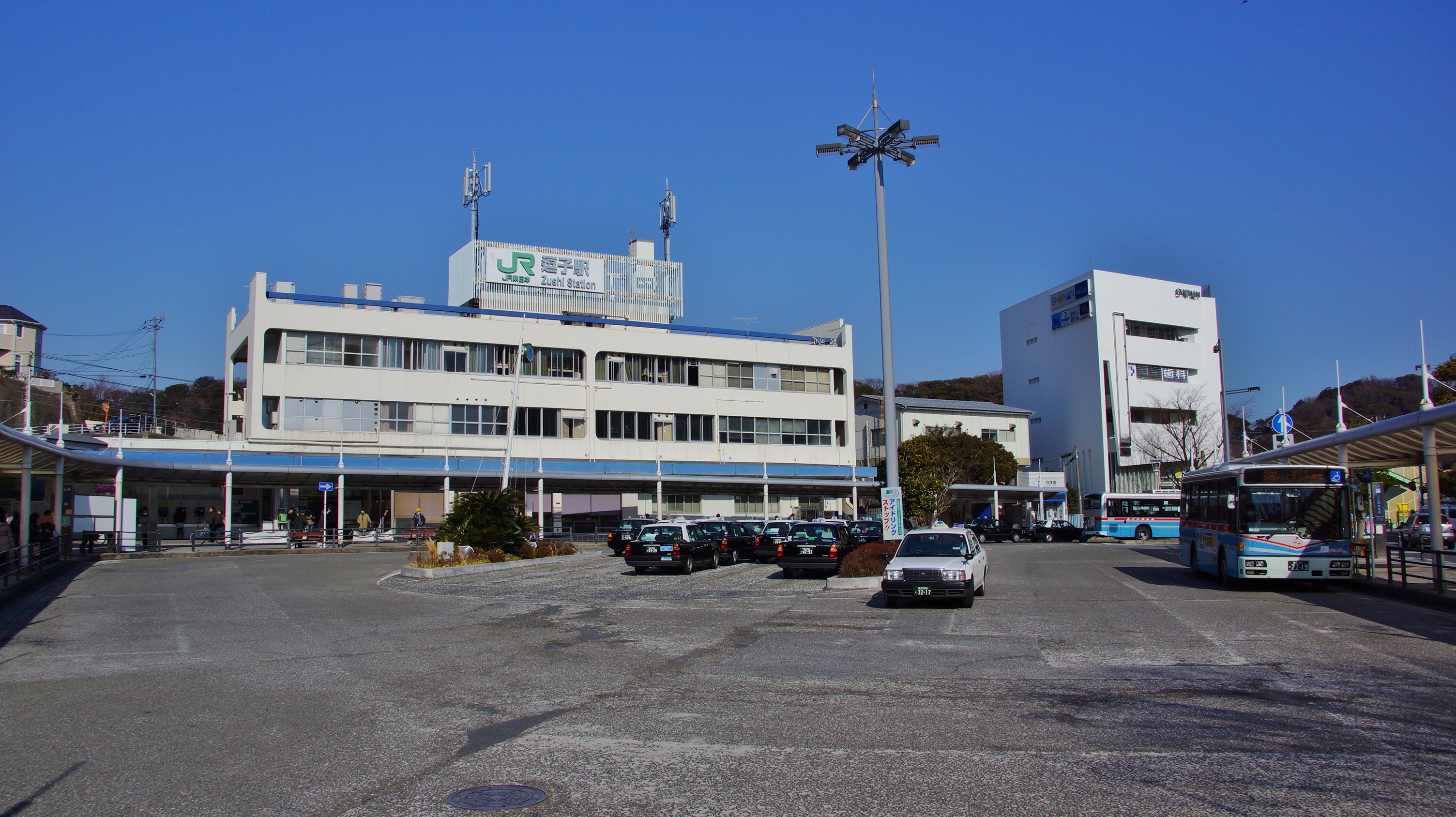 The main ("east") entrance and station forecourt of Zushi Station on the Yokosuka Line